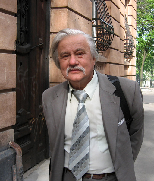 Ihor Mironovych Kalynets, Ukrainian poet